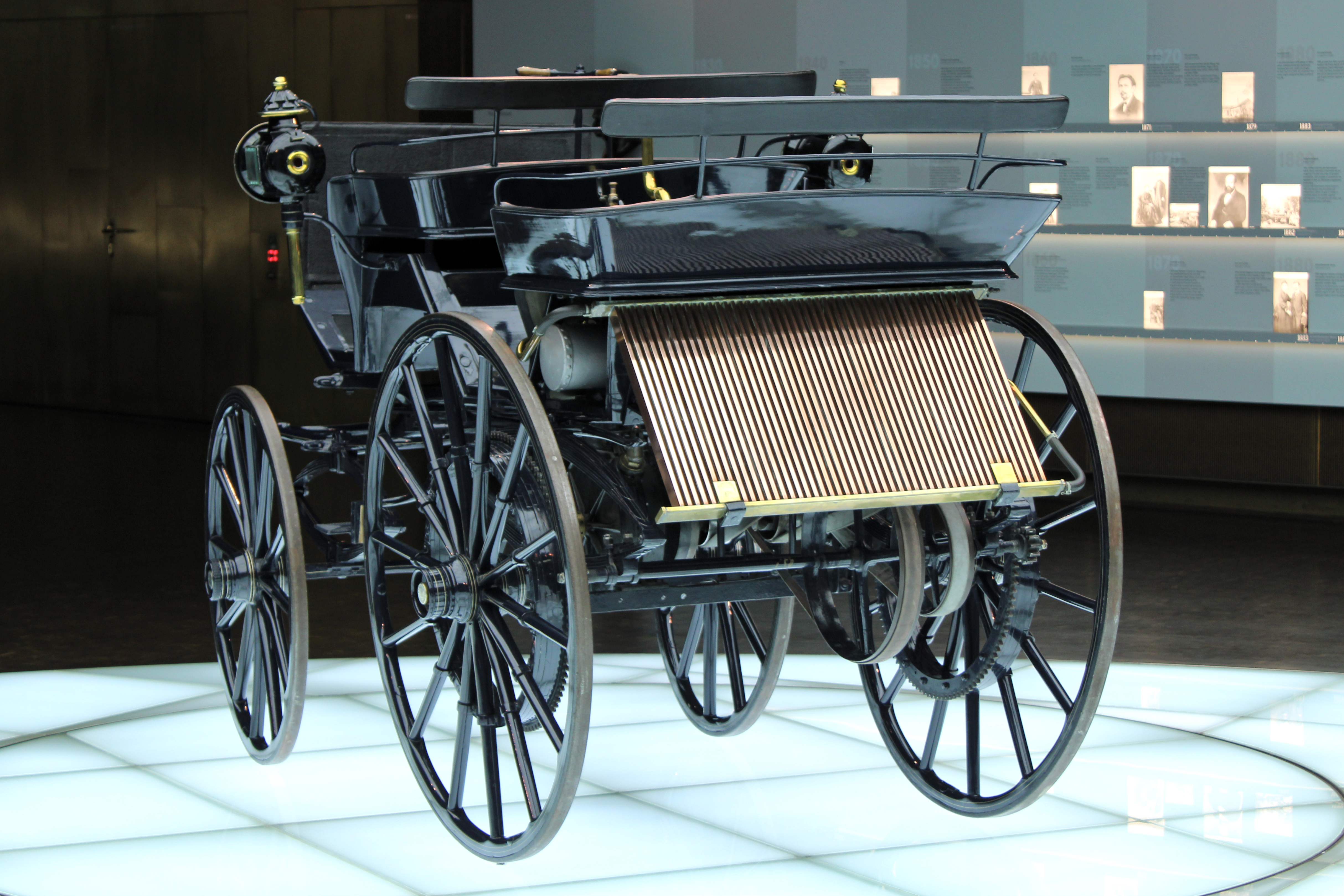 Daimler Motorized Carriage at Mercedes-Benz-Museum 2018